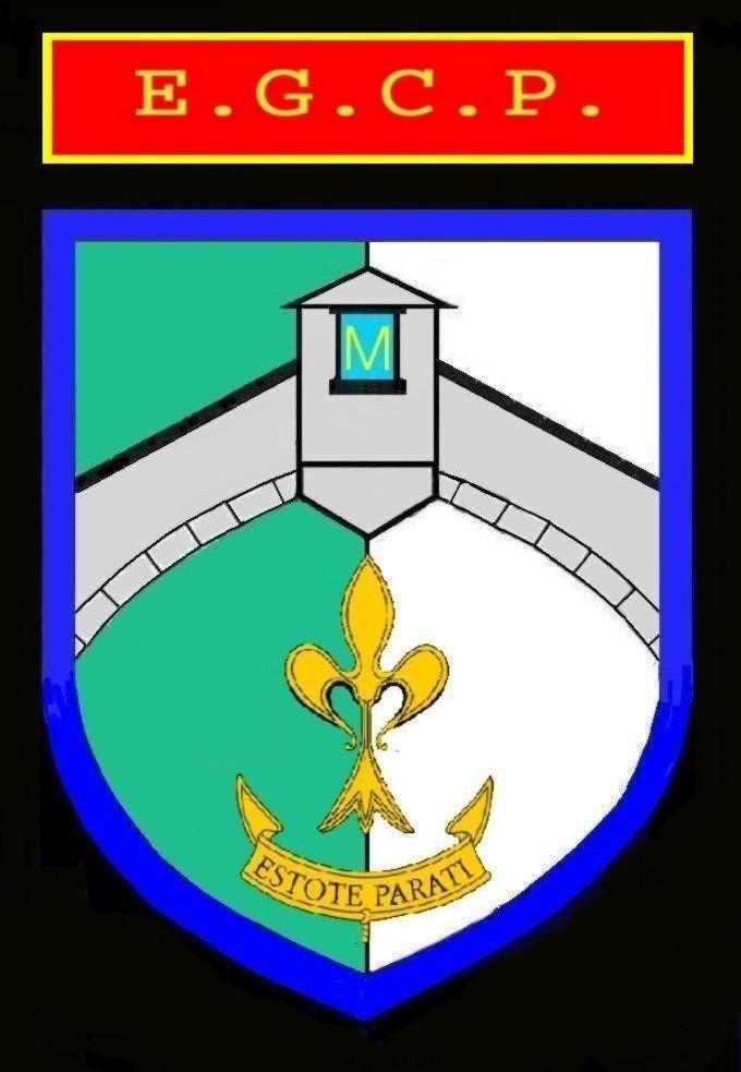 EGCP, Esploratori e Guide Cattolici Pontederesi